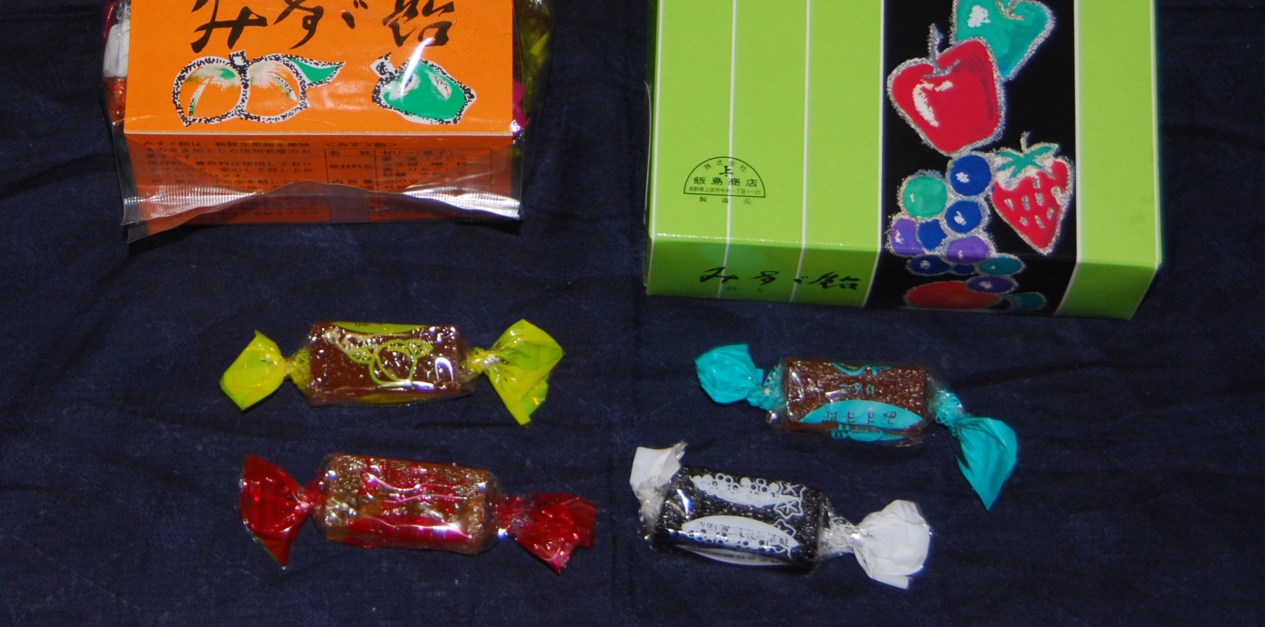 Misuzu candy